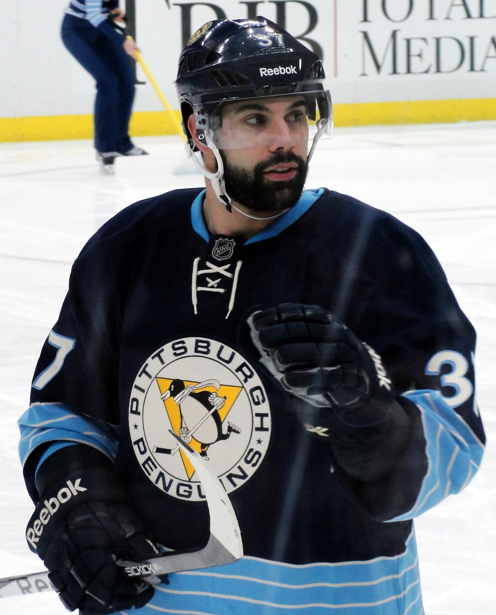 Pittsburgh Penguins defenseman Brian Strait skates against the Toronto Maple Leafs at Consol Energy Center in Pittsburgh, PA. March 7, 2012.